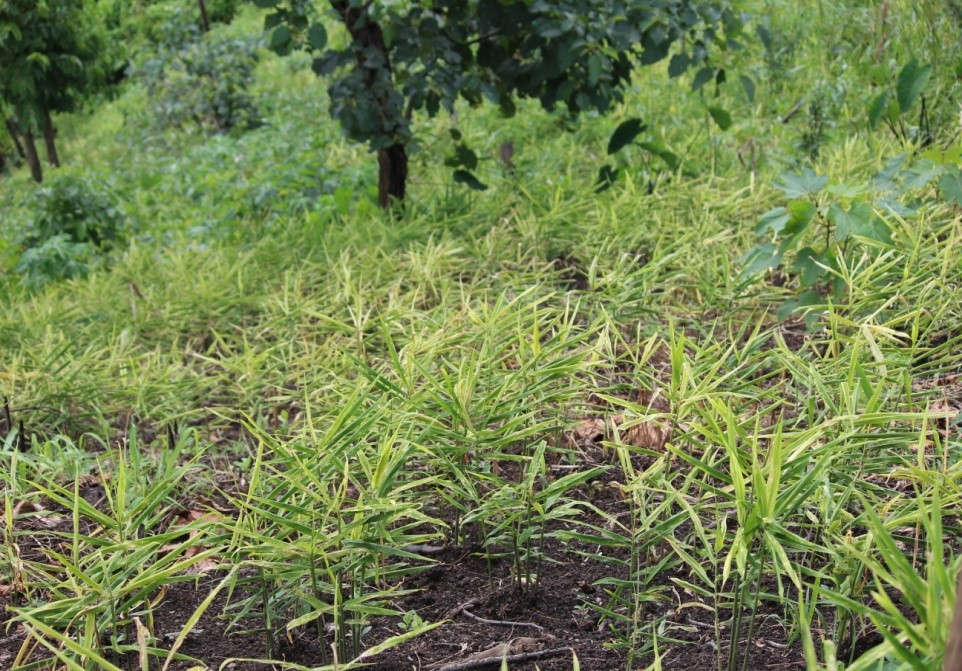 Ginger cultivation in North Lungpher area where shifting/jhumming cultivation is practiced